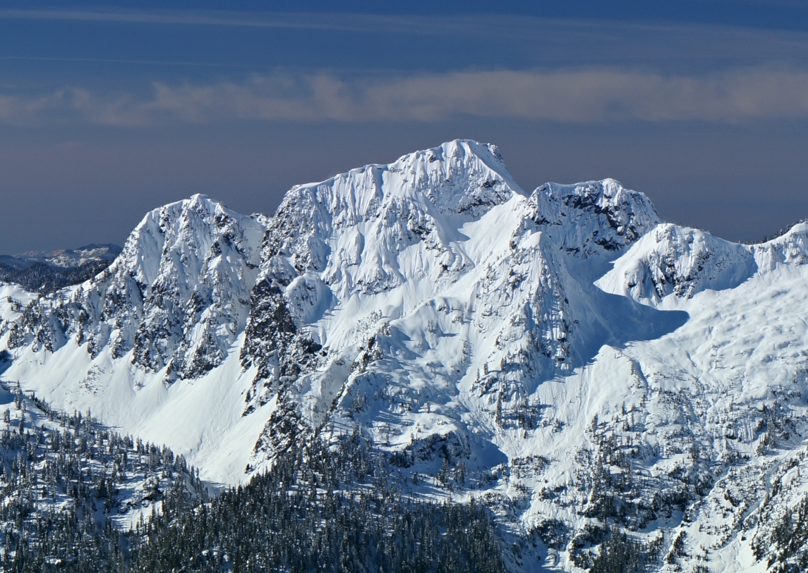 Logger Butt in winter seen from Oakes Peak. North Cascades of WA